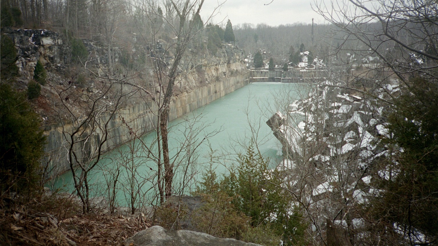 Sanders Quarry is an abandoned Salem Limestone quarry in Bloomington Indiana and a site of scenes from the film Breaking Away, photo taken January 2006.